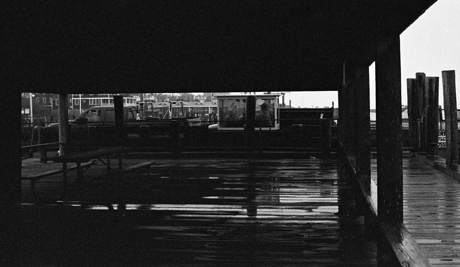 Edgartown Ferry